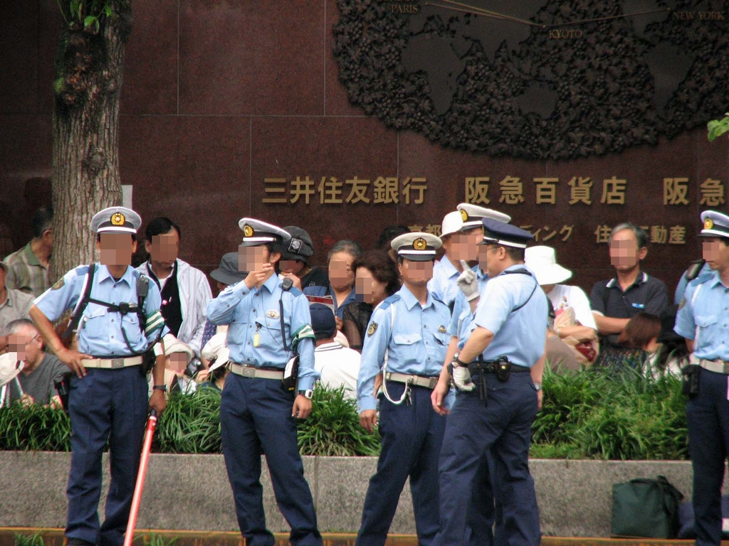 description:Police presence at the festival marks a change from the old festivals to those of the present. photographer: Chris Gladis photographer location:Kyoto, Japan flickr_url: [1] Note, the policeman on the left is not holding a light-saber, it is a police baton warning stick, as discussed on the reference desk wp:Reference desk/Archives/Miscellaneous/2010 July 17#Lightsaber?!. In the background, it says 三井住友銀行 which is Sumitomo Mitsui Banking Corporation